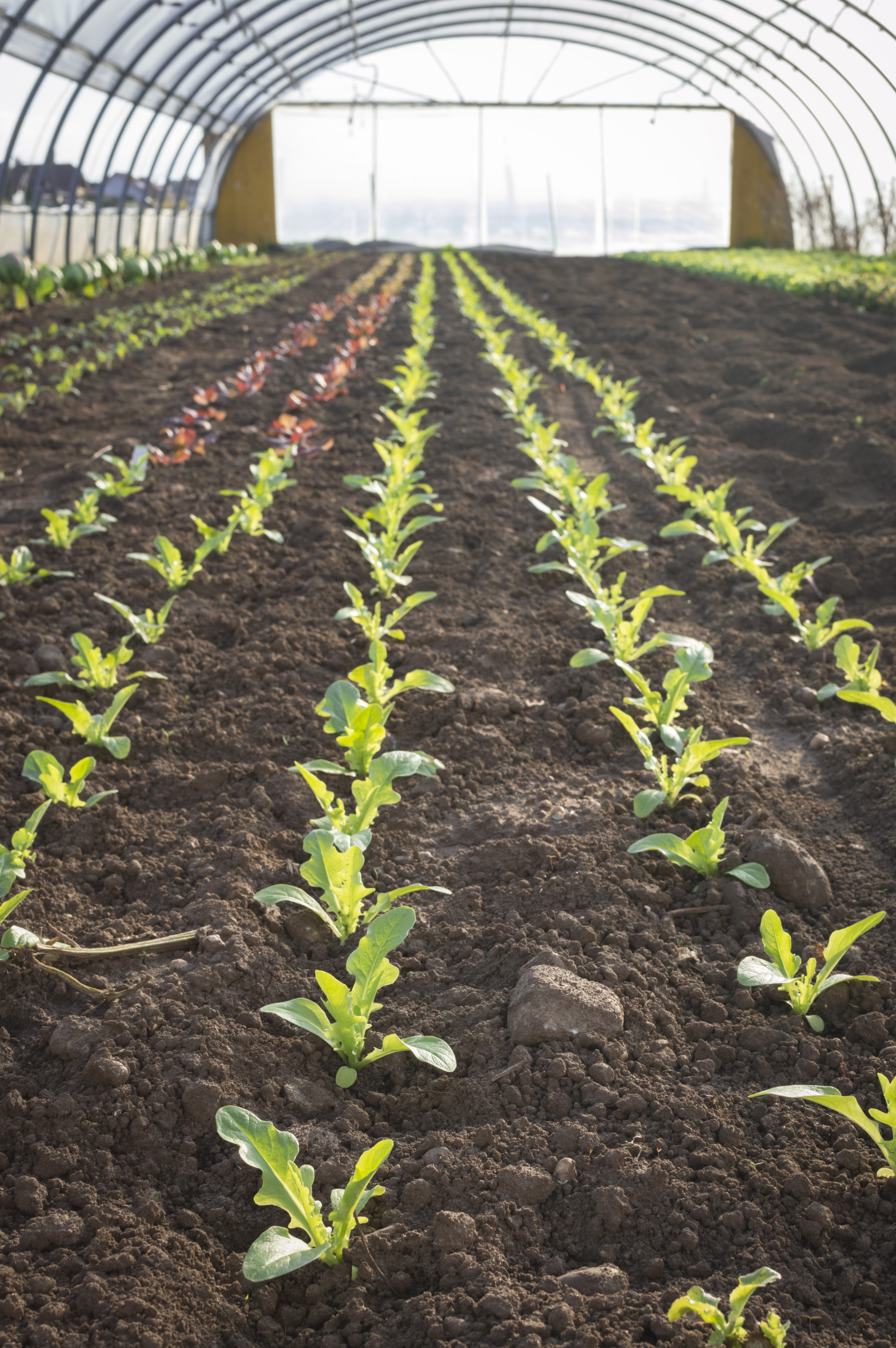 GeLa Ochsenherz CSA salad in spring